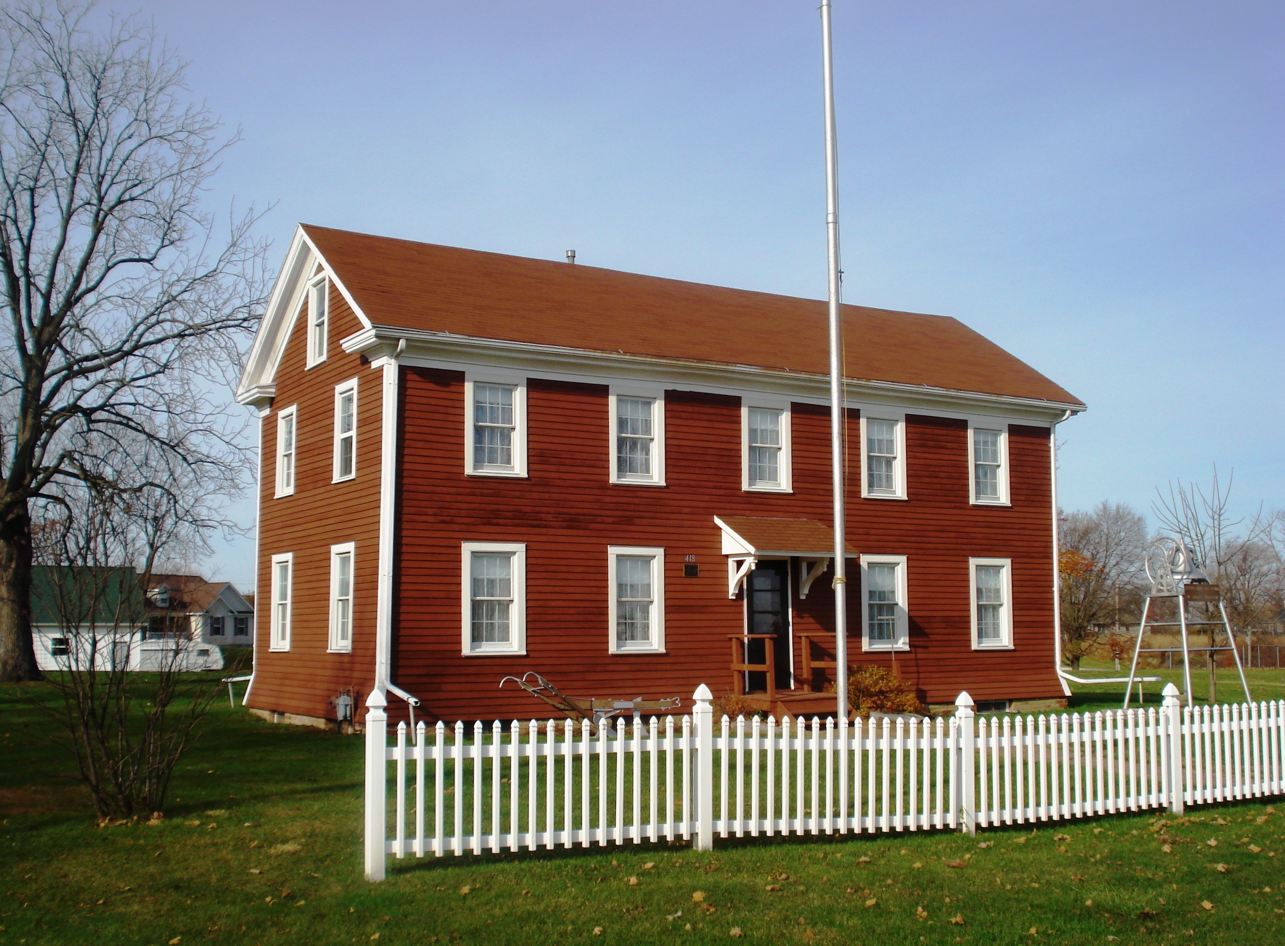 Locust St., NW. Placed on the National Register of Historic Place on November 28, 1980